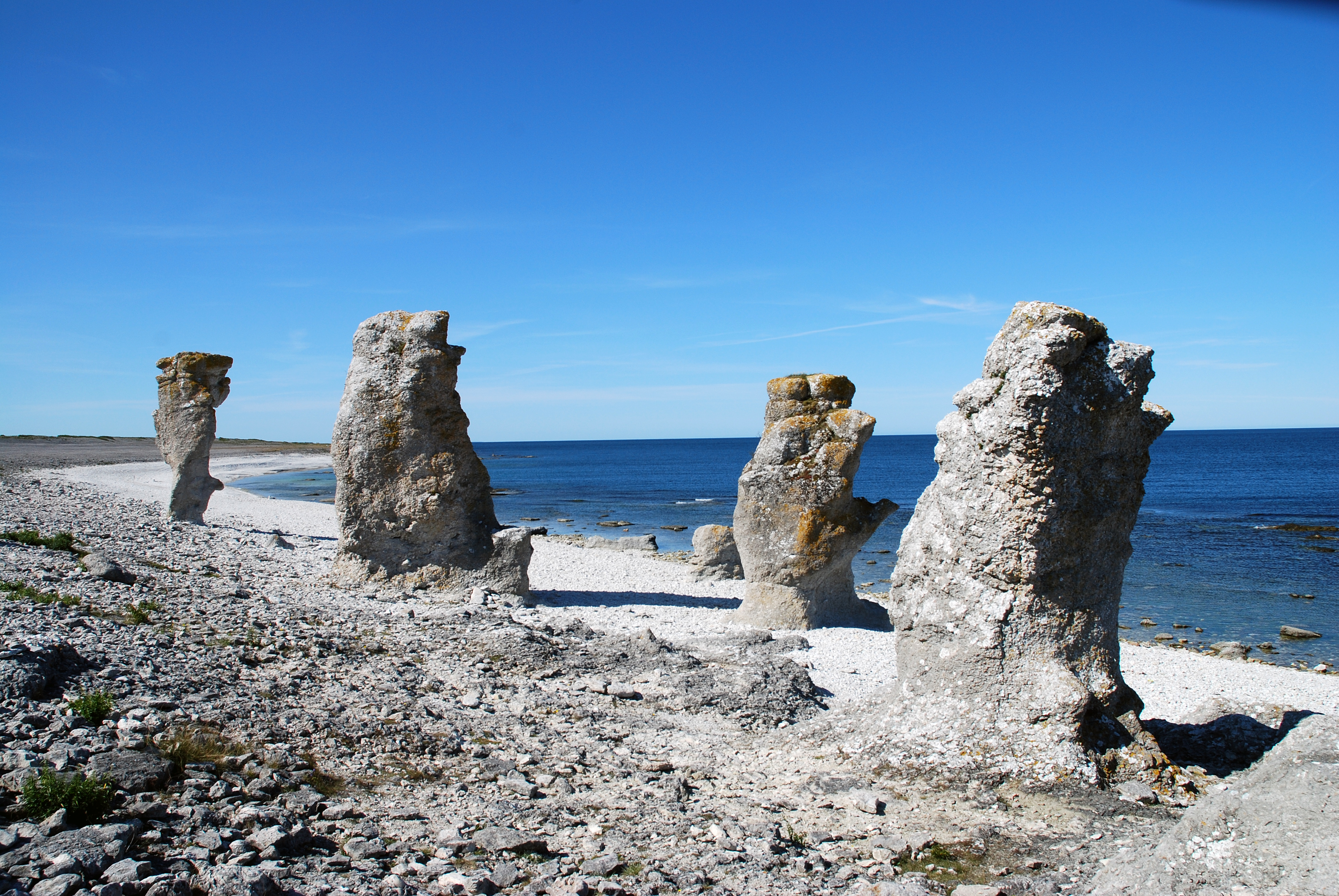 Langhammars,Gotland,Aug 2009